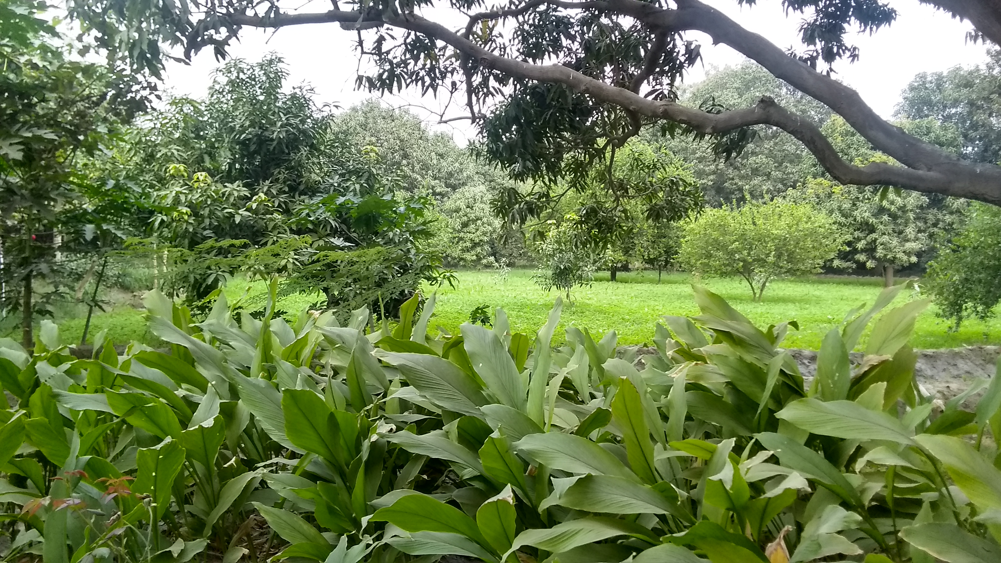 مسن بڑی ضلع ٹنڈوالہیار